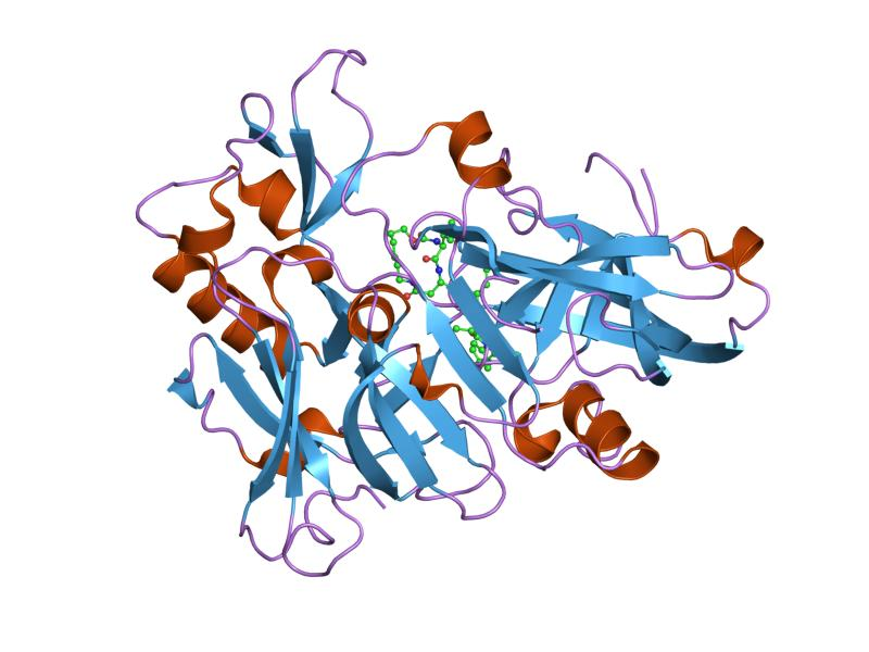 Cartoon representation of the molecular structure of protein registered with 1xs7 code.